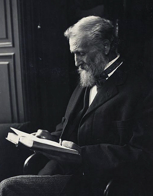 American conservationist John Muir (1838-1914)